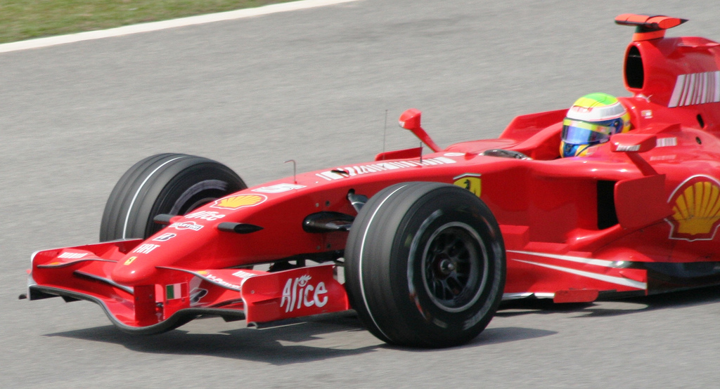 Felipe Massa driving for Ferrari at the 2007 Malaysian Grand Prix.